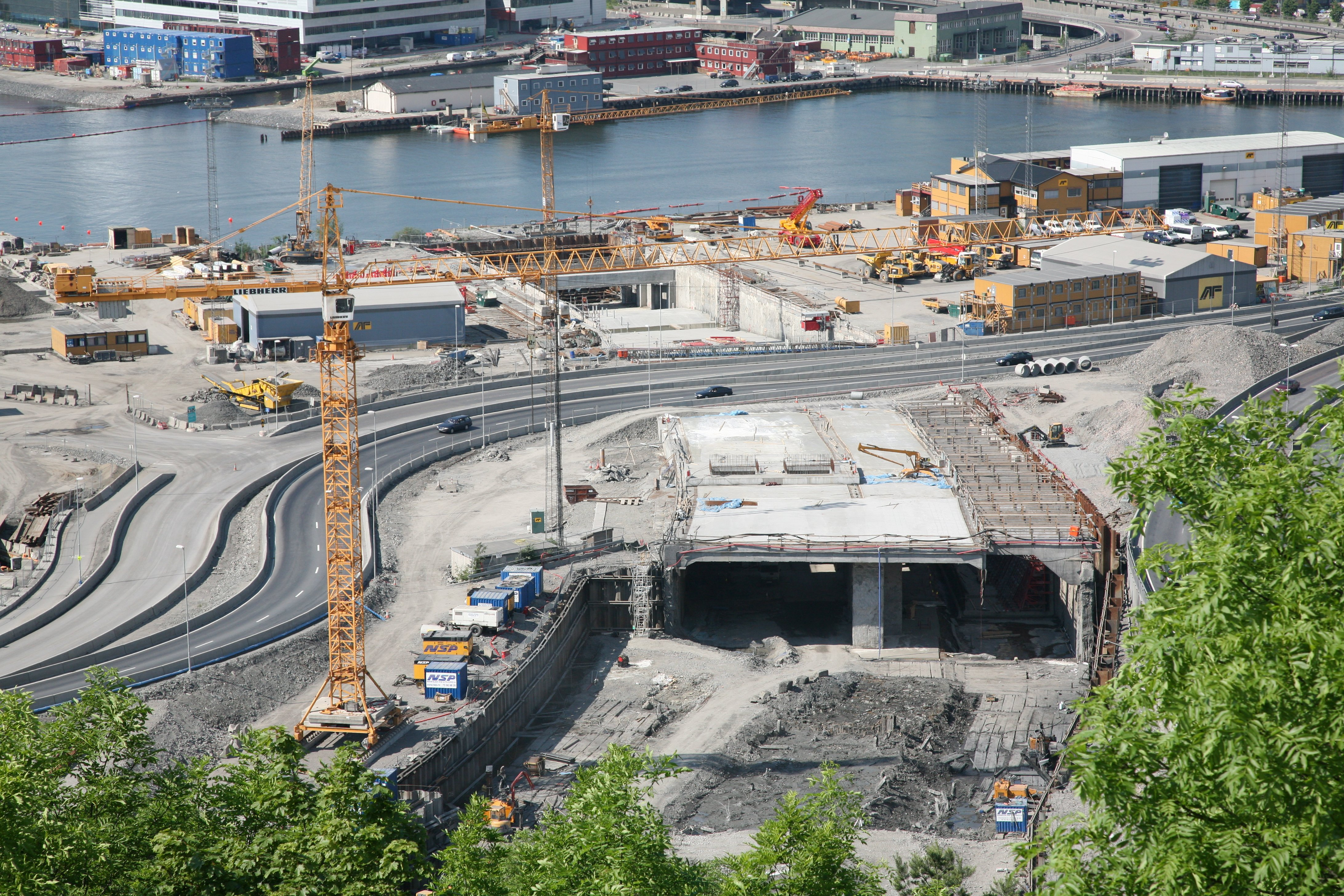 Entrance to the undersea tunnel under construction in Bjørvika, Oslo, Norway